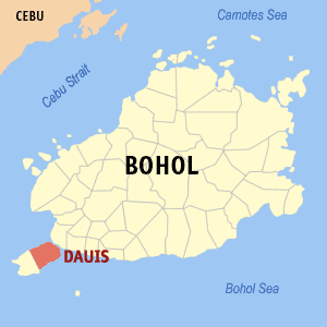 Map of Bohol showing the location of Dauis